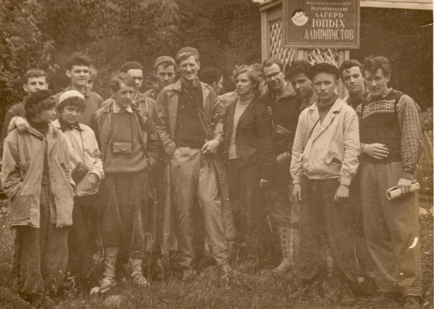 Chief of the expedition, the first time who conquered Chomolungma (Everest), Sir John Hunt during his stay in the Caucasus in 1958.